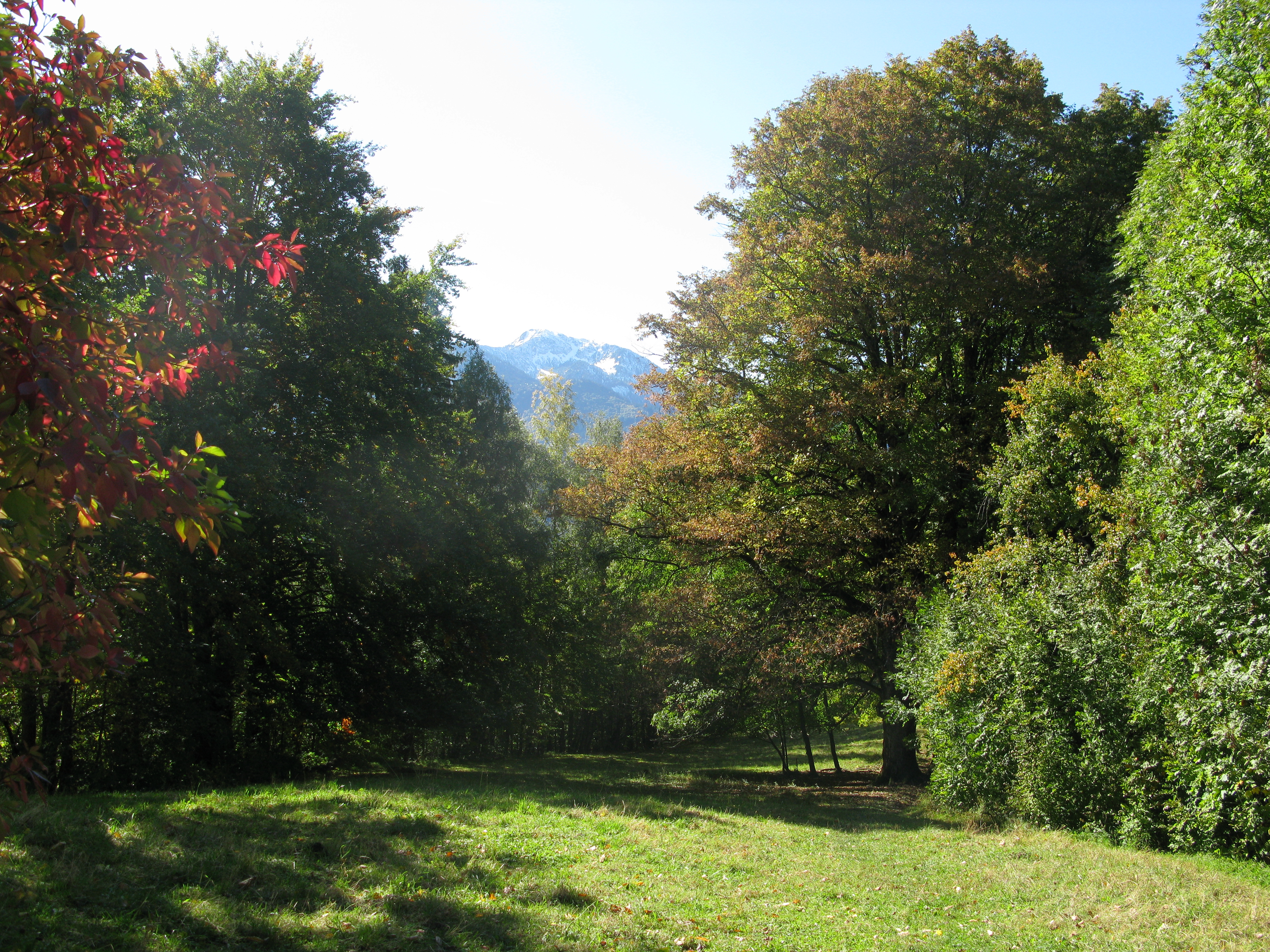 The park of the Georg-von-Vollmar-Akademie on the Aspensteinbichl in Kochel am See, Upper Bavaria, Germany.